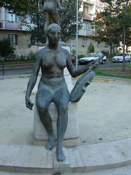 The Peace Fountain in Budapest (detail)